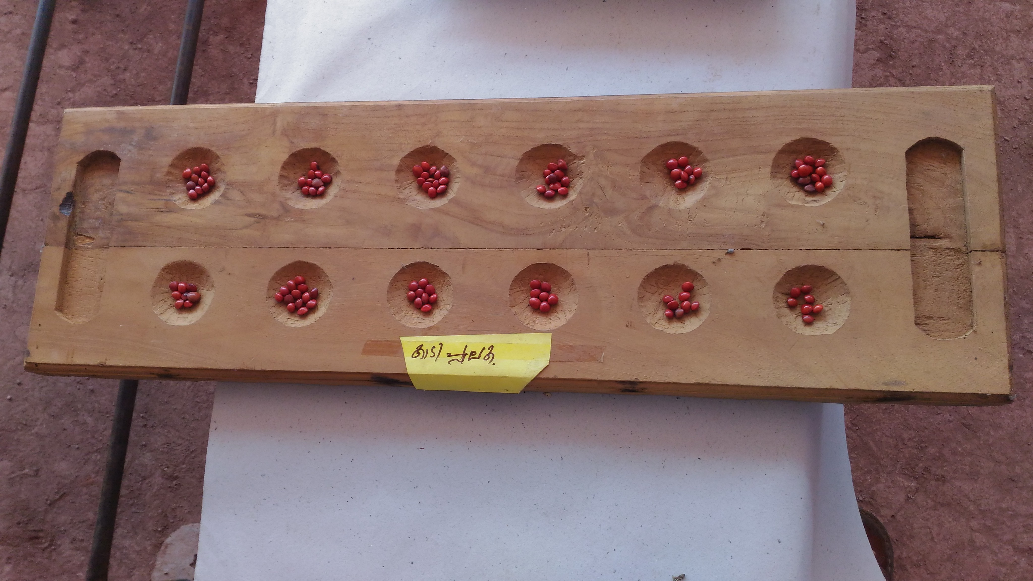 Kadippalaka - A wooden table used to play Kadi